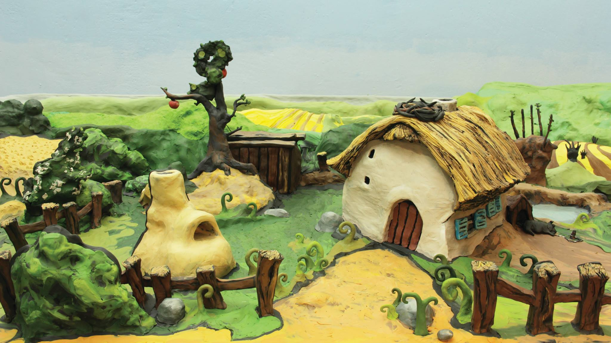 still from the movie "Father knows best" - H.CH.Andersen- Robotic Theatre (Copernicus Science Centre)